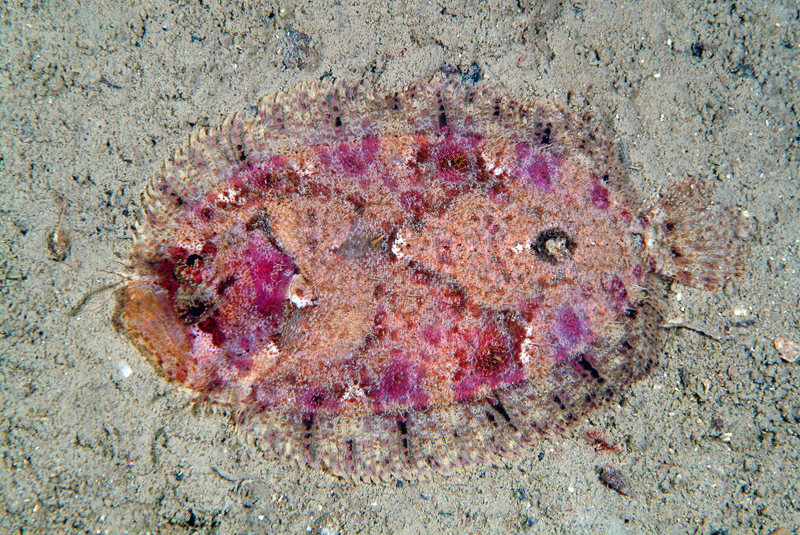 Zeugopterus regius photographed near Tuscany coasts (Italy). Photo by Stefano Guerrieri.